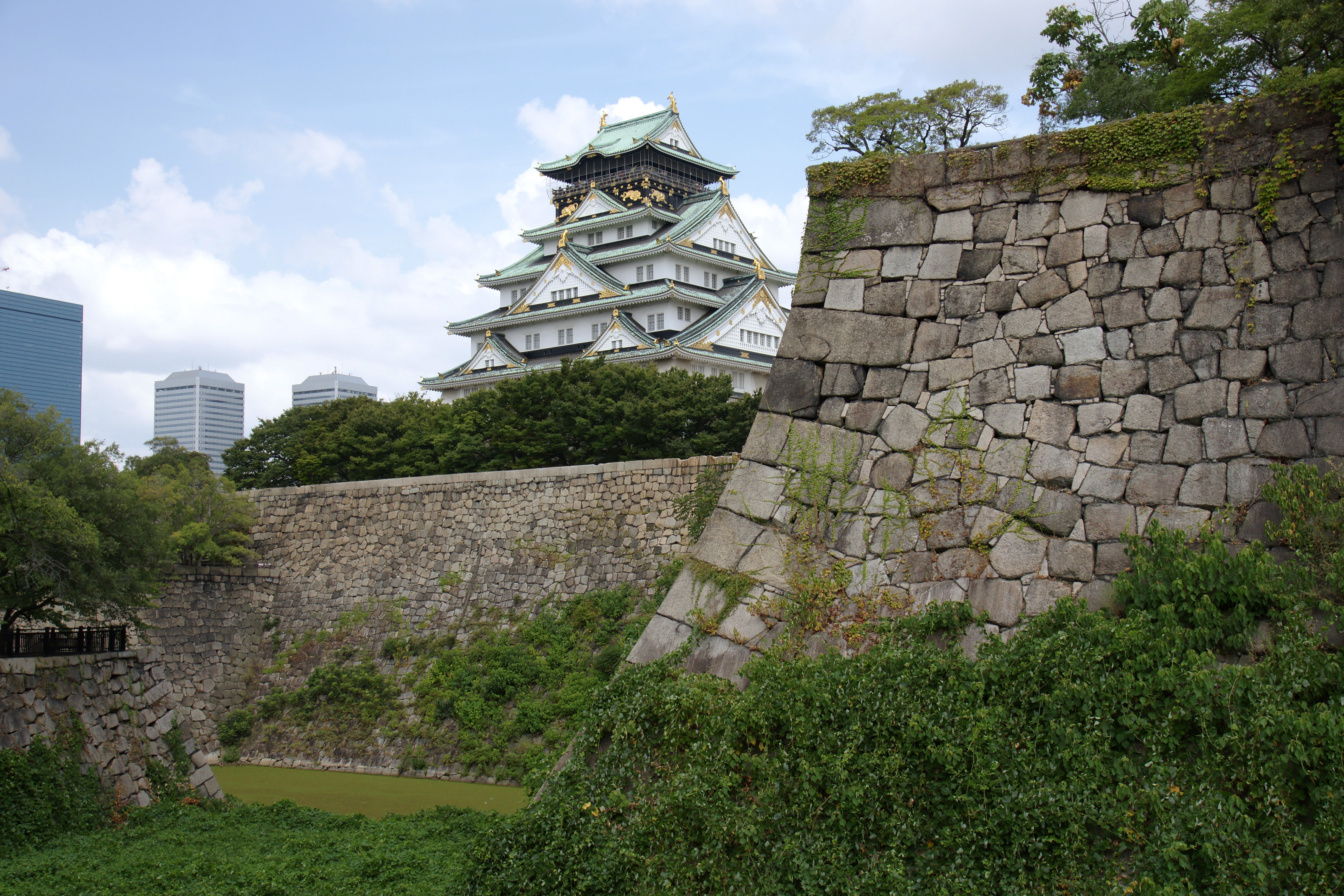 Osaka Castle in Chuo-ku, Osaka, Osaka prefecture, Japan